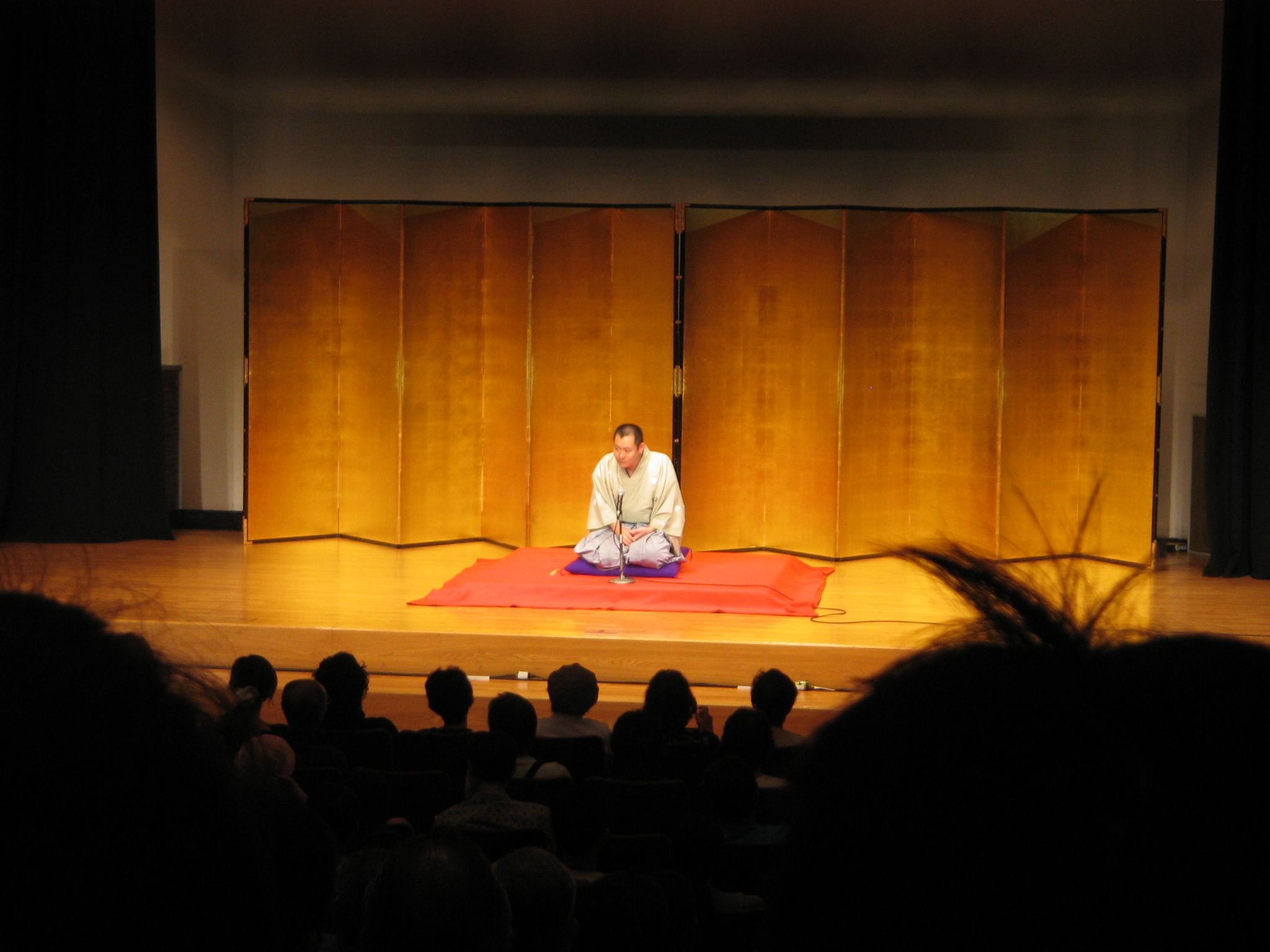 sanma festival, meguro rakugo show, the story about a samurai that tried very tasty sanma in Meguro.